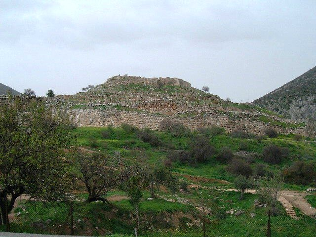 The acropolis at Mycenae. Taken December 2001.